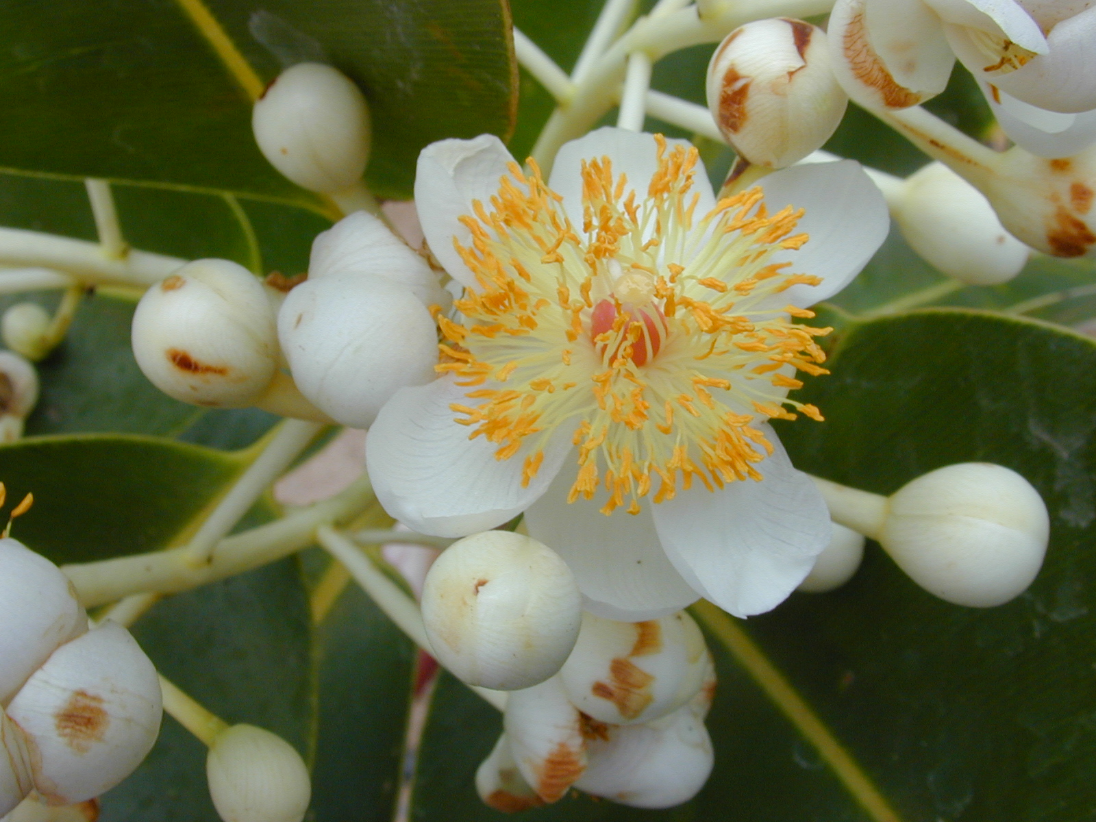 Calophyllum inophyllum (flowers). Location: Maui, Kalepolepo Kihei